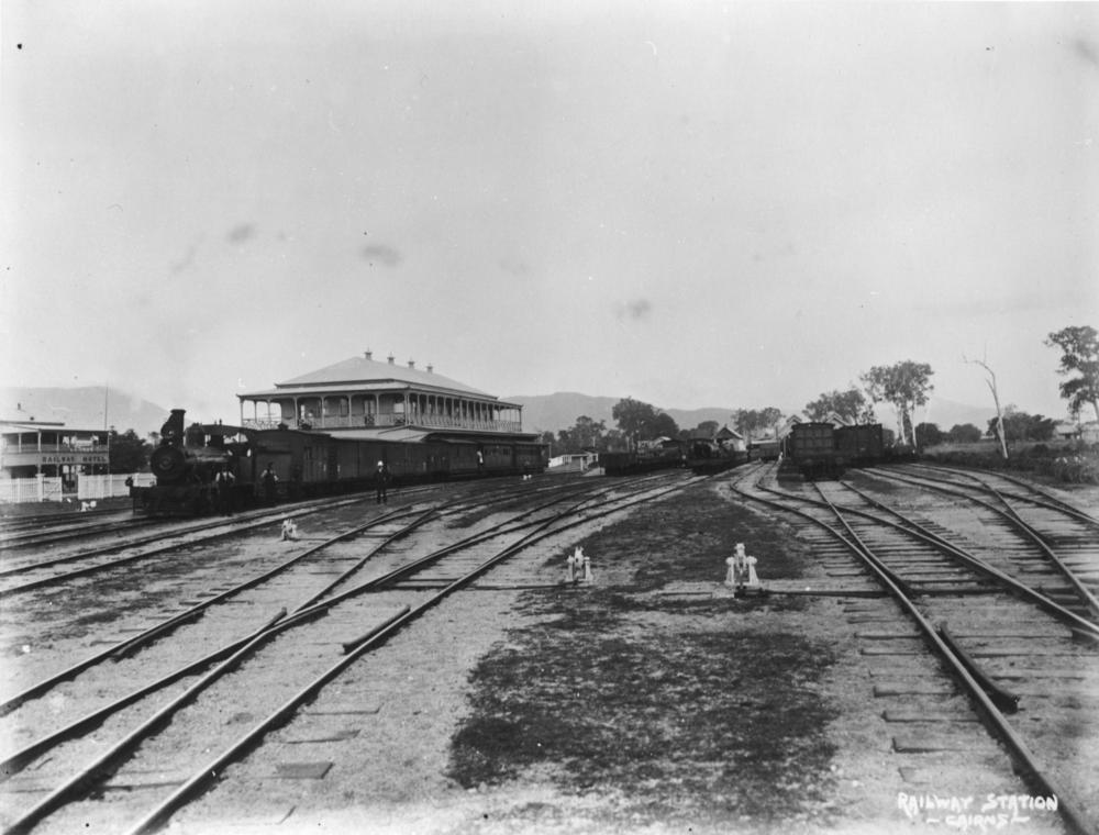 Cairns Railway Station, ca. 1890 Reproduced from of glass negative, 23. (Description supplied with photograph.).